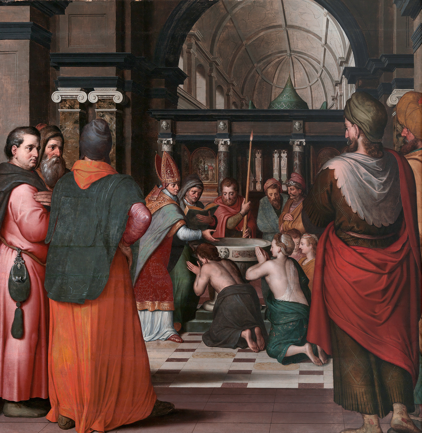 Saint Eustace is baptized oil on panel 130 x 131 cm 1515 - 1584